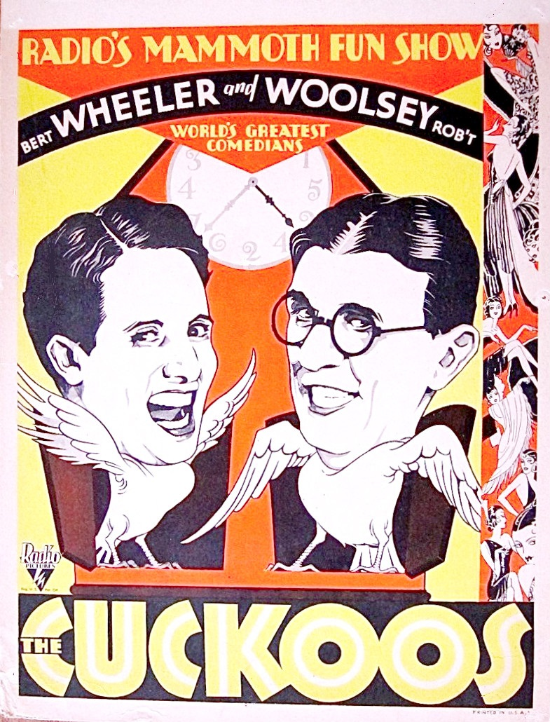 Poster for the 1930 film The Cuckoos. This is a copy of a window card poster unedited copy. The top was originally blank so a local theater could affix its own information. The top has been cropped out and minor flaws to the poster corrected. There are no copyright marks as can be seen at the links. At bottom right is Printed in USA. The RKO logo at bottom left is identified as being a registered trademark.